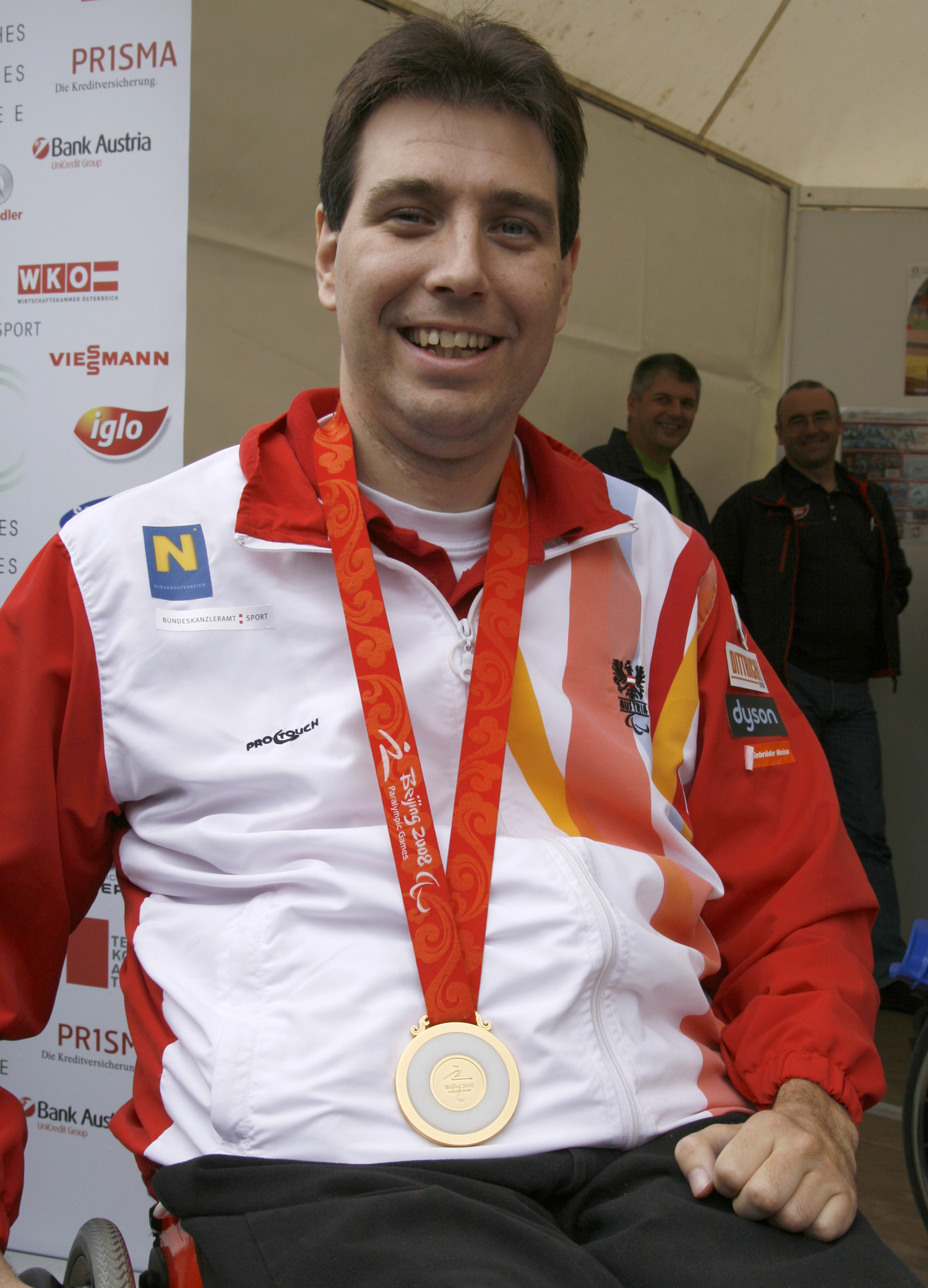 Austrian table tennis player Andreas Vevera with the gold medal he won at the 2008 Summer Paralympics ("Day of Sports", Heldenplatz, Vienna).